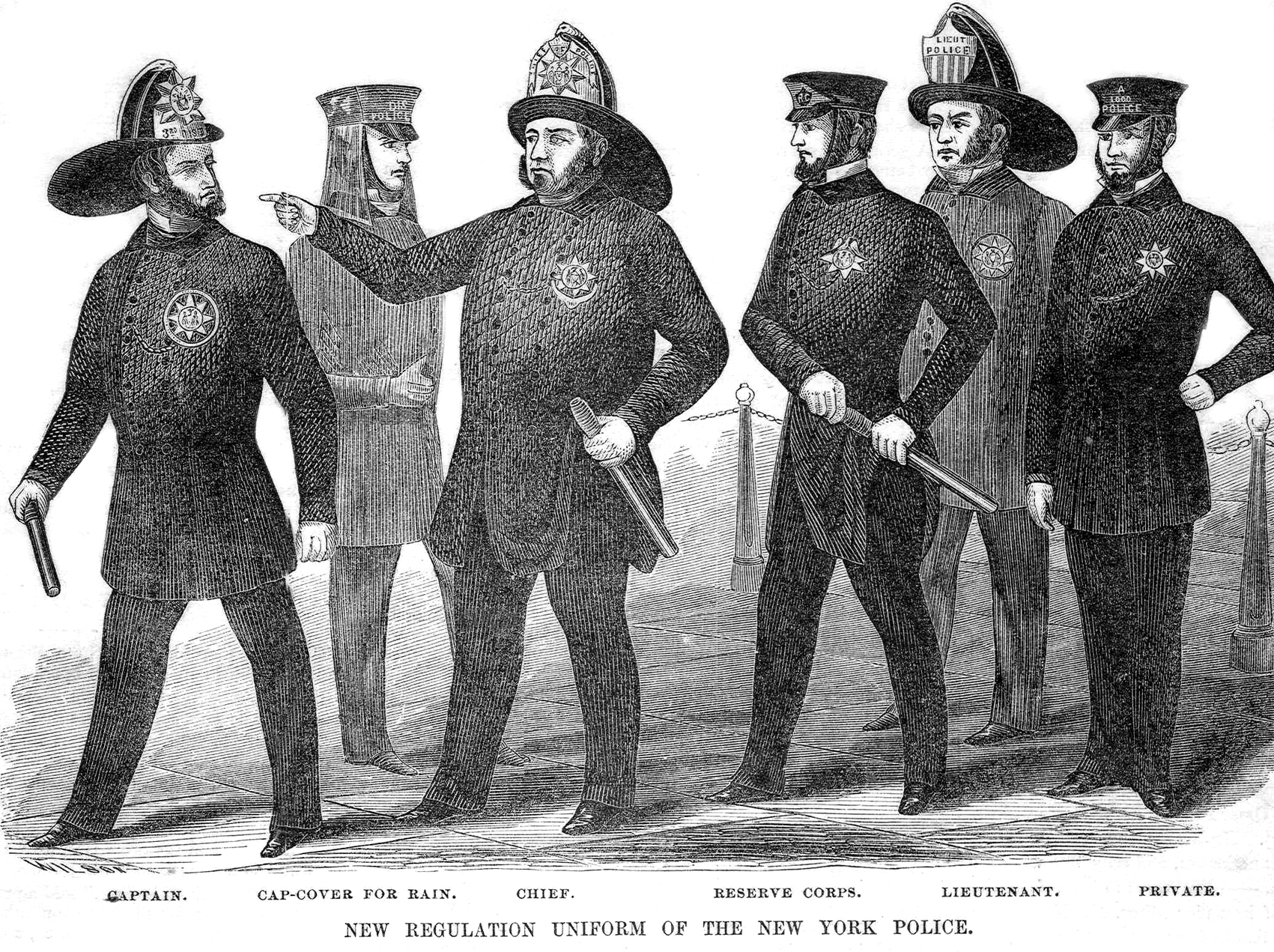 New regulation uniform of the New York Police. Illustration from 1854.